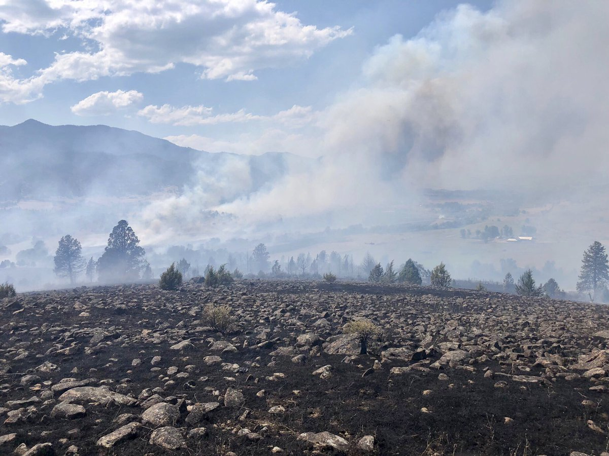 calfirelocal2881 members have been working nonstop since the start of the #PawneeFire on June 23 and continue to work up & down the #GoldenState with little rest protecting the 5th largest economy. #UnionStrong #firefighter #CALFIREservingCA #StrengthInUnity #wildfire #CALFIRE